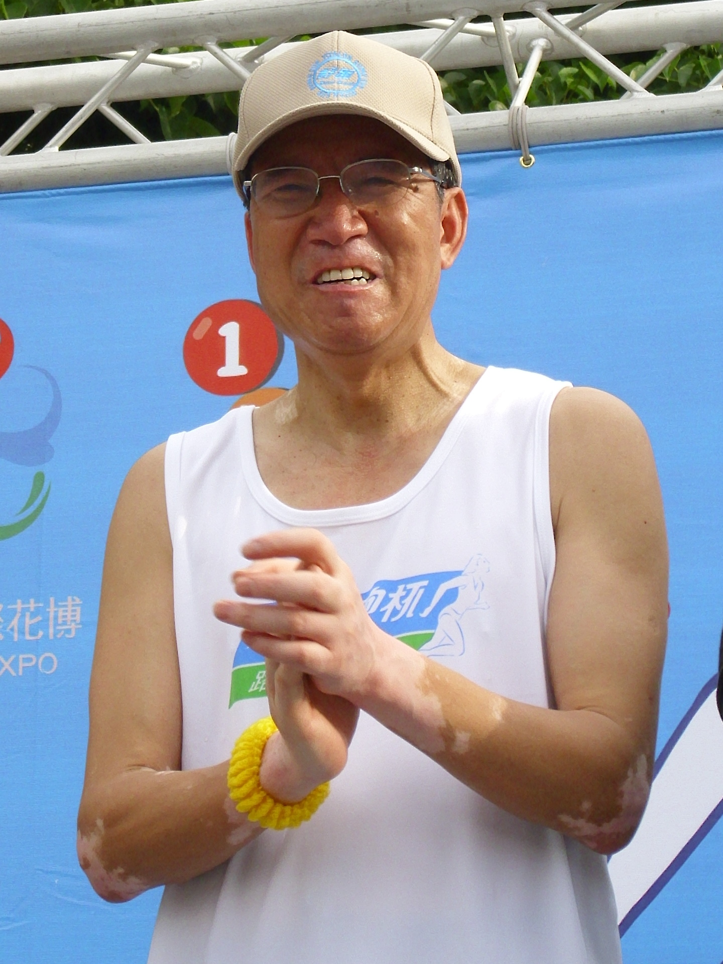 2010 Taipei Supau Cup Mini Marathon: Er-chung Tsao中文（台灣）: 曹爾忠